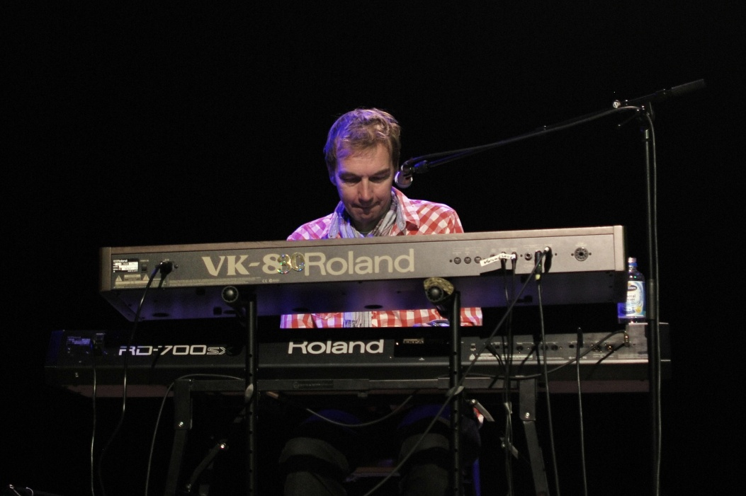 Pankow (German Band), Concert 2011-11-04 in Schwedt, Kulle Dziuk on the keyboards